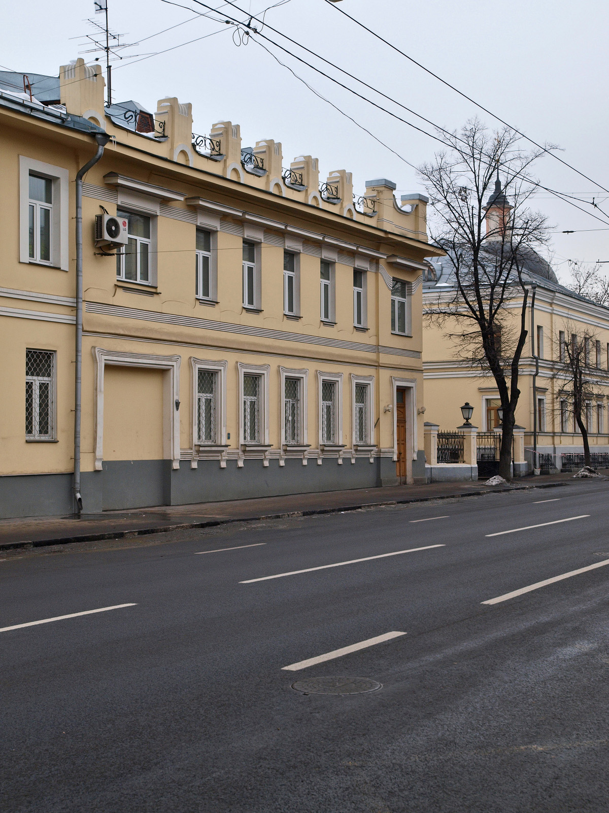 35, Bolshaya Ordynka Street, Moscow. Embassy of Cameroon in Moscow